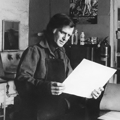 Photograph by Robert Bianchi. 1981, Broome Street Printmaking Shop, NYC. Attribution — Work must be attributed to Robert Bianchi (but not in any way that suggests that he endorses you or your use of the work).